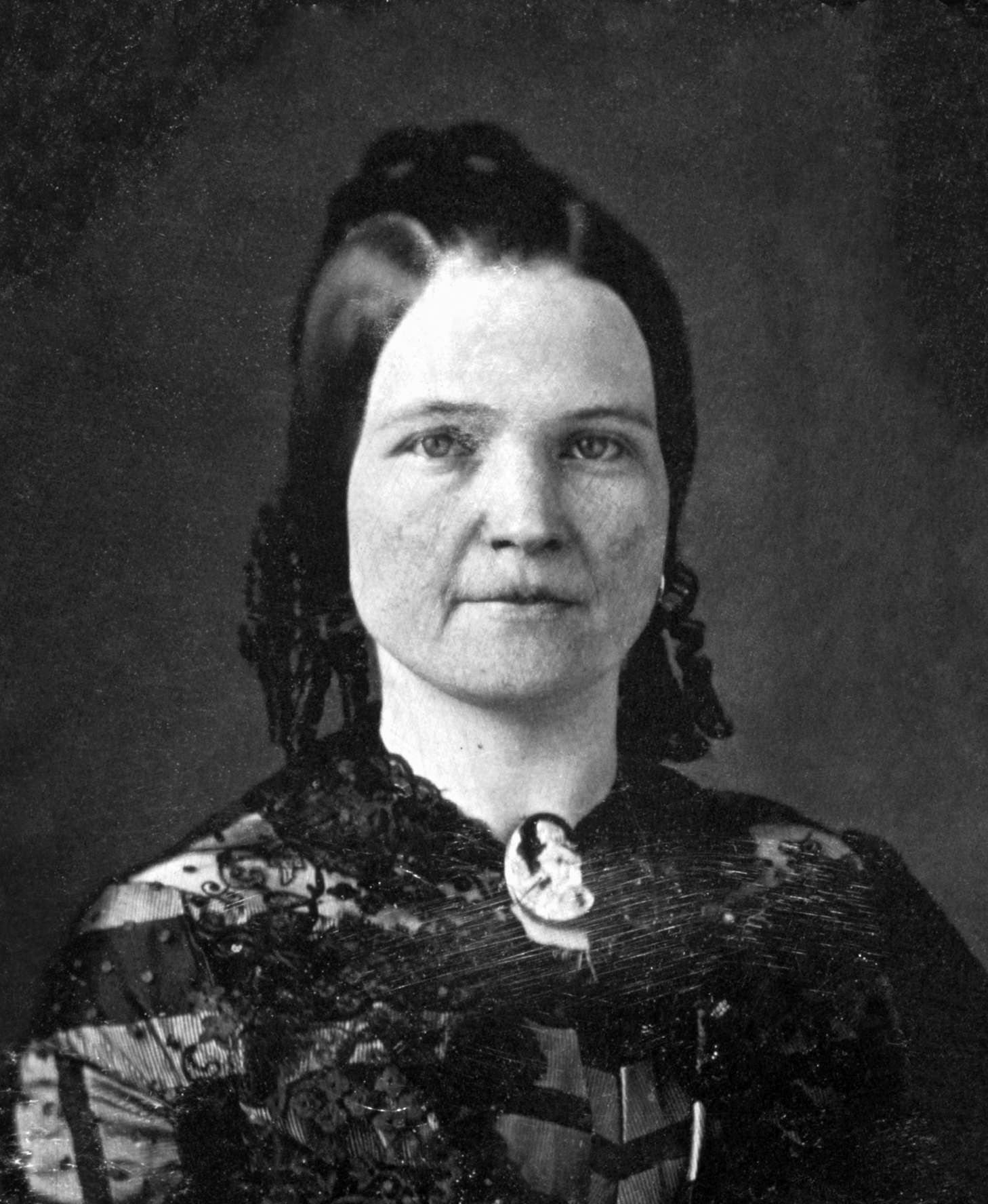 Mary Todd Lincoln, wife of Abraham Lincoln. Three-quarter length portrait, seated, facing front